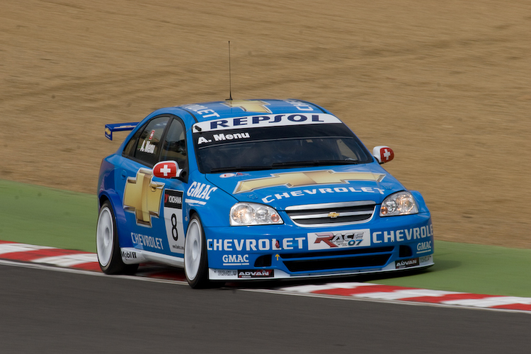 Alain Menu (Chevrolet) at the 2008 WTCC Brands Hatch race.